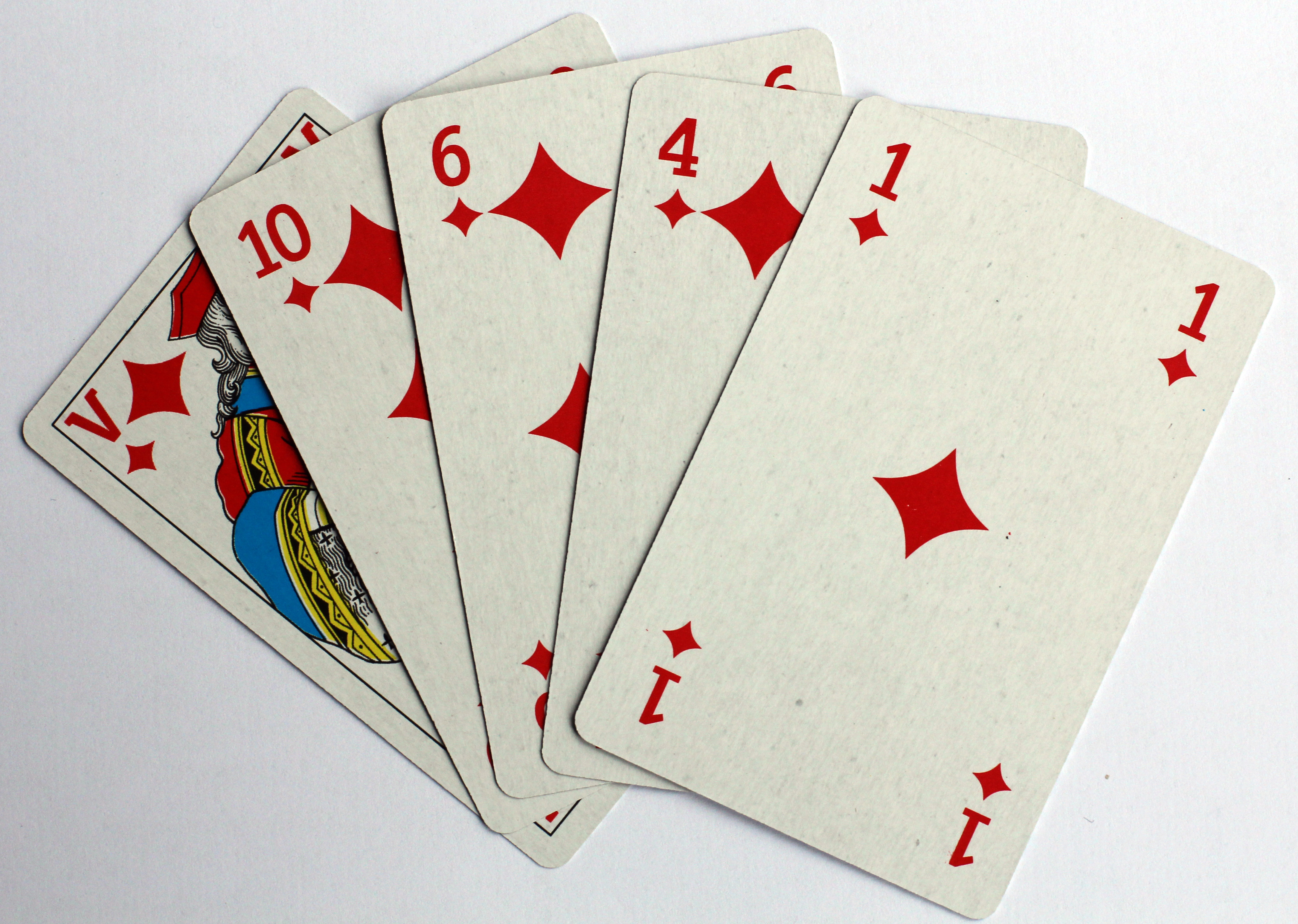 Flush of diamonds from a French-pattern, French-suited pack